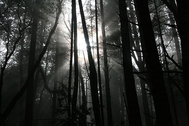 Wood Duck Pond Trees at Galbreath Wildlands Preserve